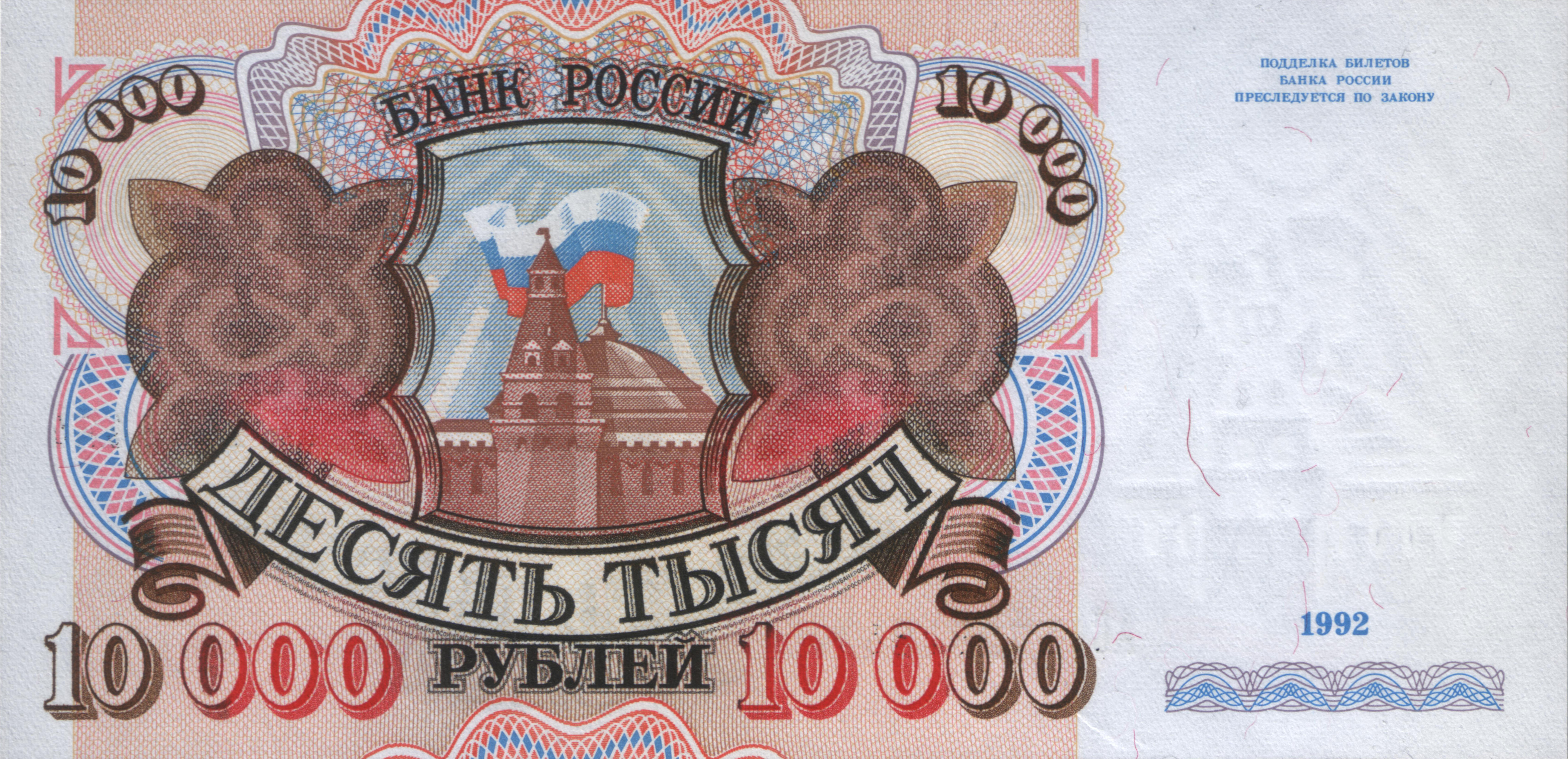 Russian banknote. 10000 rubles. Version of 1992 year. Front